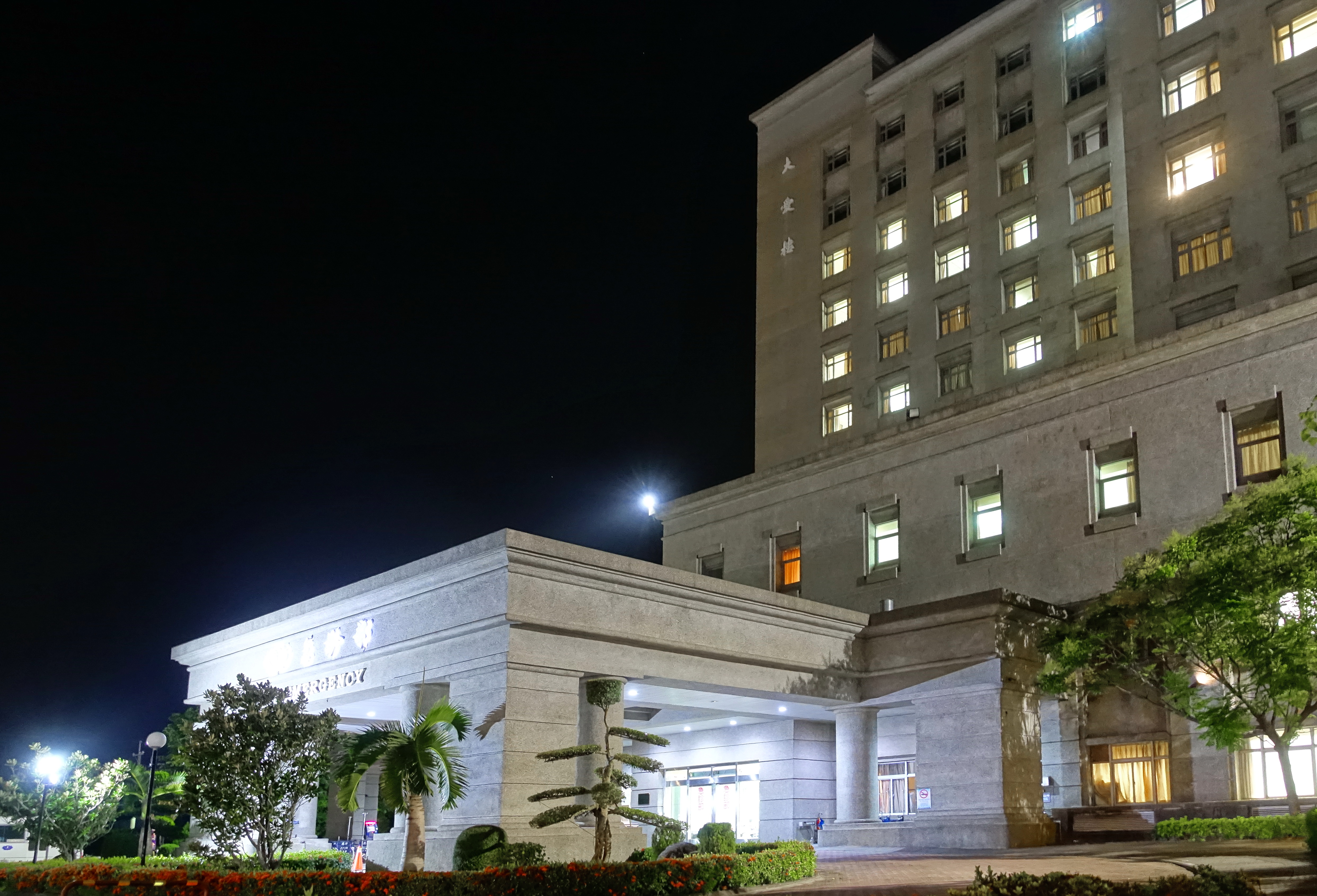 Emergency Entrance of the Dalin Tzu Chi Hospital.